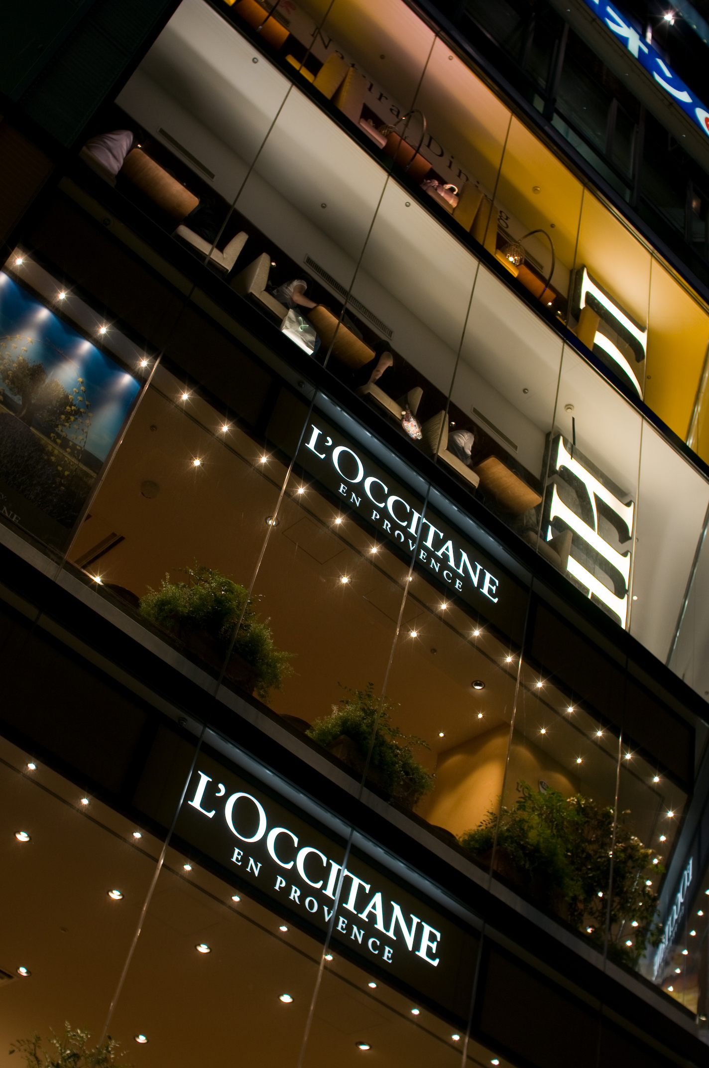 A L'Occitane store in Shibuya, Tokyo, Japan